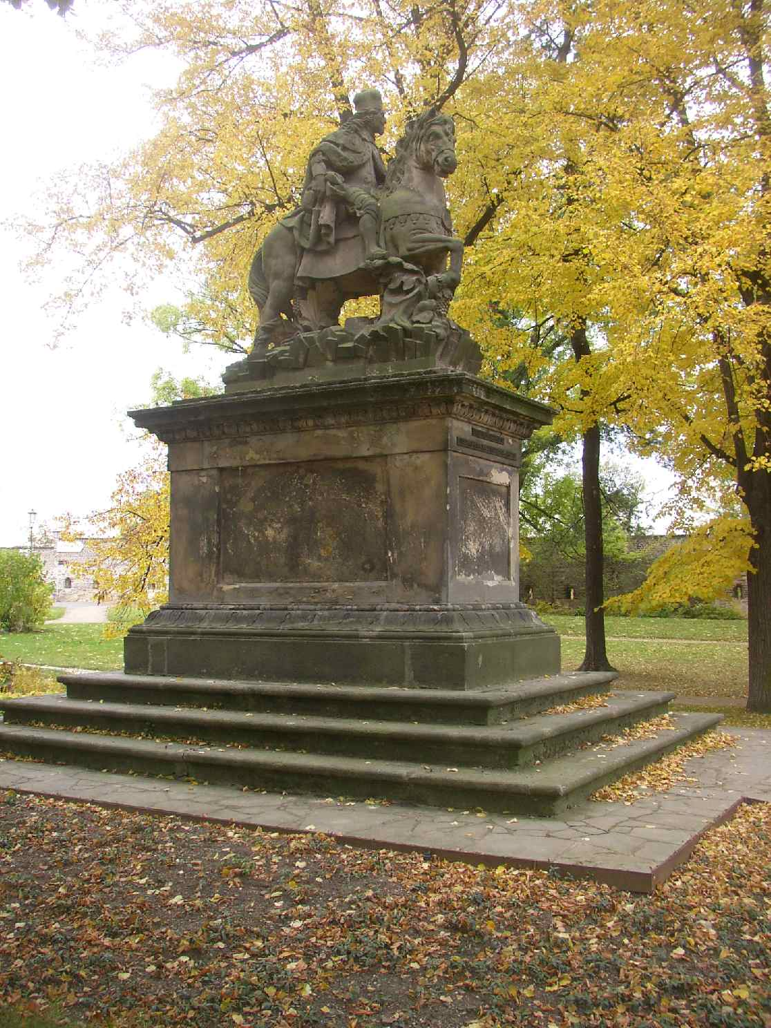 Equestrian statue of St. Wenceslas, Vyšehrad, Prague, Czech Republic. The statue was sculpted in 1678-1680 by Jan Jiří Bendl (for 200 guldens and 936 l of rye flour). It was originally placed as part of a fountain in the middle of Horse Market in the New Town of Prague (today's name of the square - Wenceslas Square - derives from this statue). It was transferred to Vyšehrad in 1879 and a new monument of St. Wenceslas by Josef Václav Myslbek (today in the front of National Museum) was made later for the square.